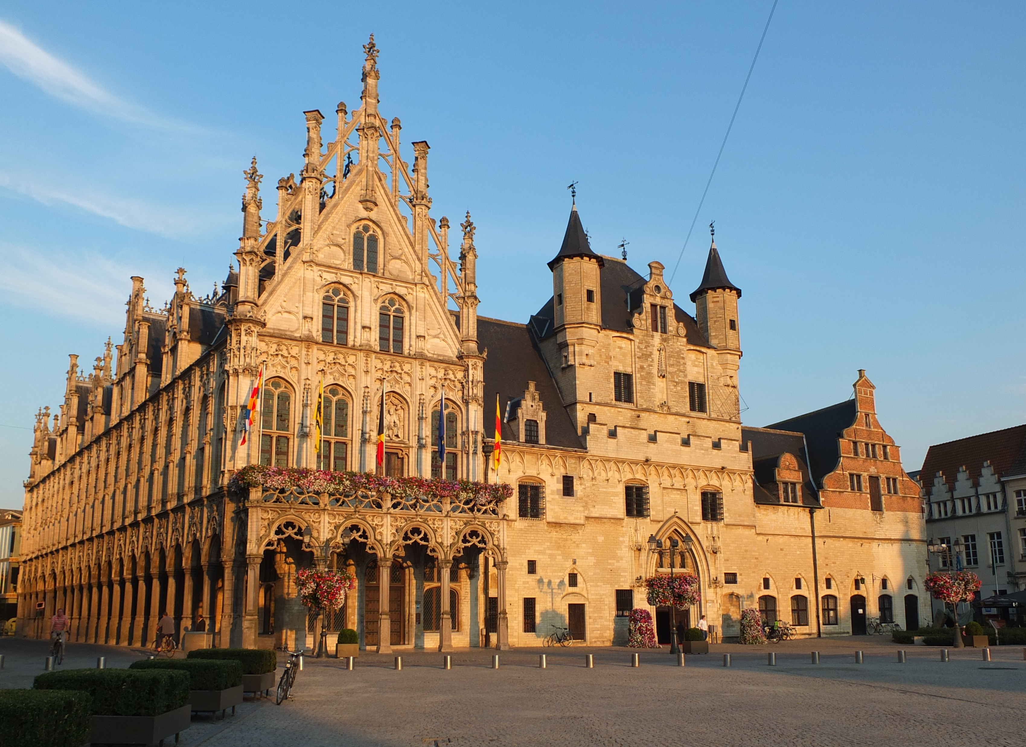 Mechelen City Hall, Flanders, Belgium.